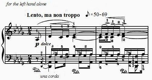 Leopold Godowsky Studies on Chopin's Etudes No. 5 (Chopin Op. 10 No. 3 ), opening